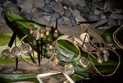 This head ornament is made of coconut shells and is worn on Ua Pou Island in French Polynesia.